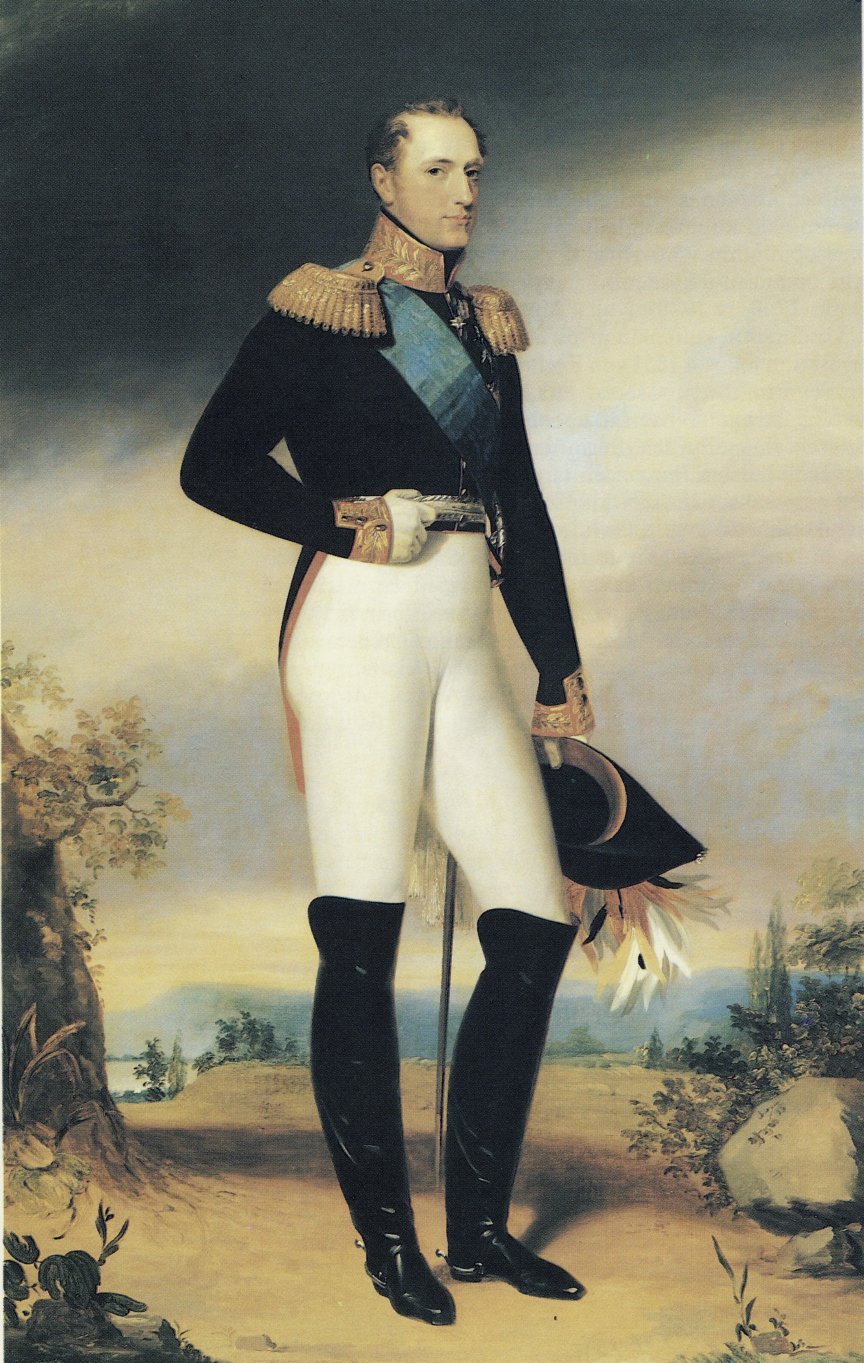 Portrait of Russian emperor Nicholas I, bought to the collections of Helsinki University in 1830.